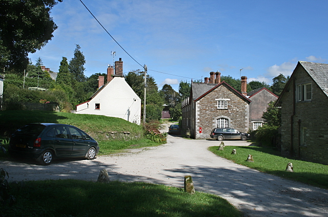 St. Michael Penkevil village Built for the Tregothnan estate workers.